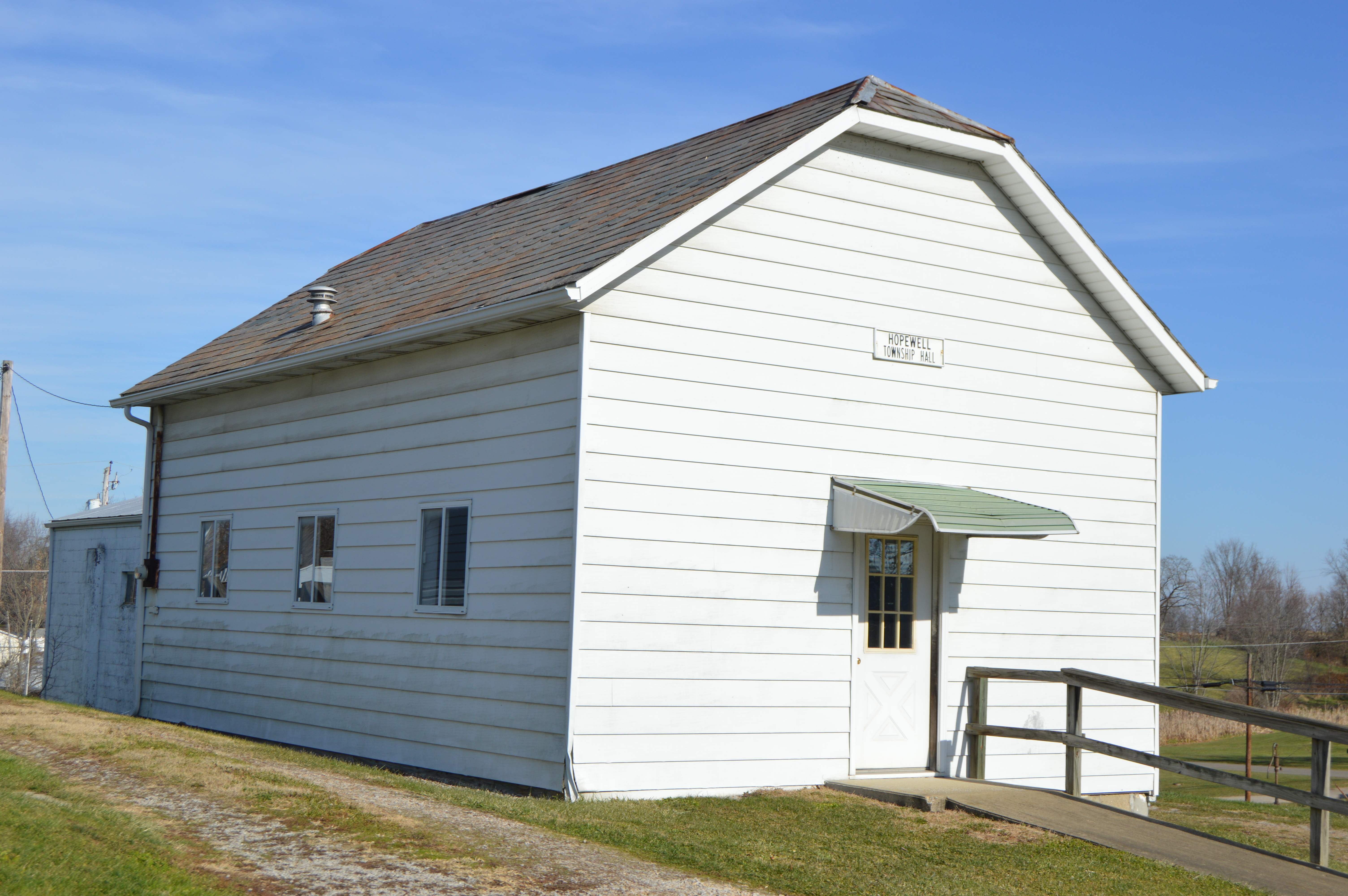 Front and western side of the Hopewell Township Hall, located west of the intersection of Flint Ridge Road and the old National Road at Mount Sterling in Hopewell Township, Muskingum County, Ohio, United States.